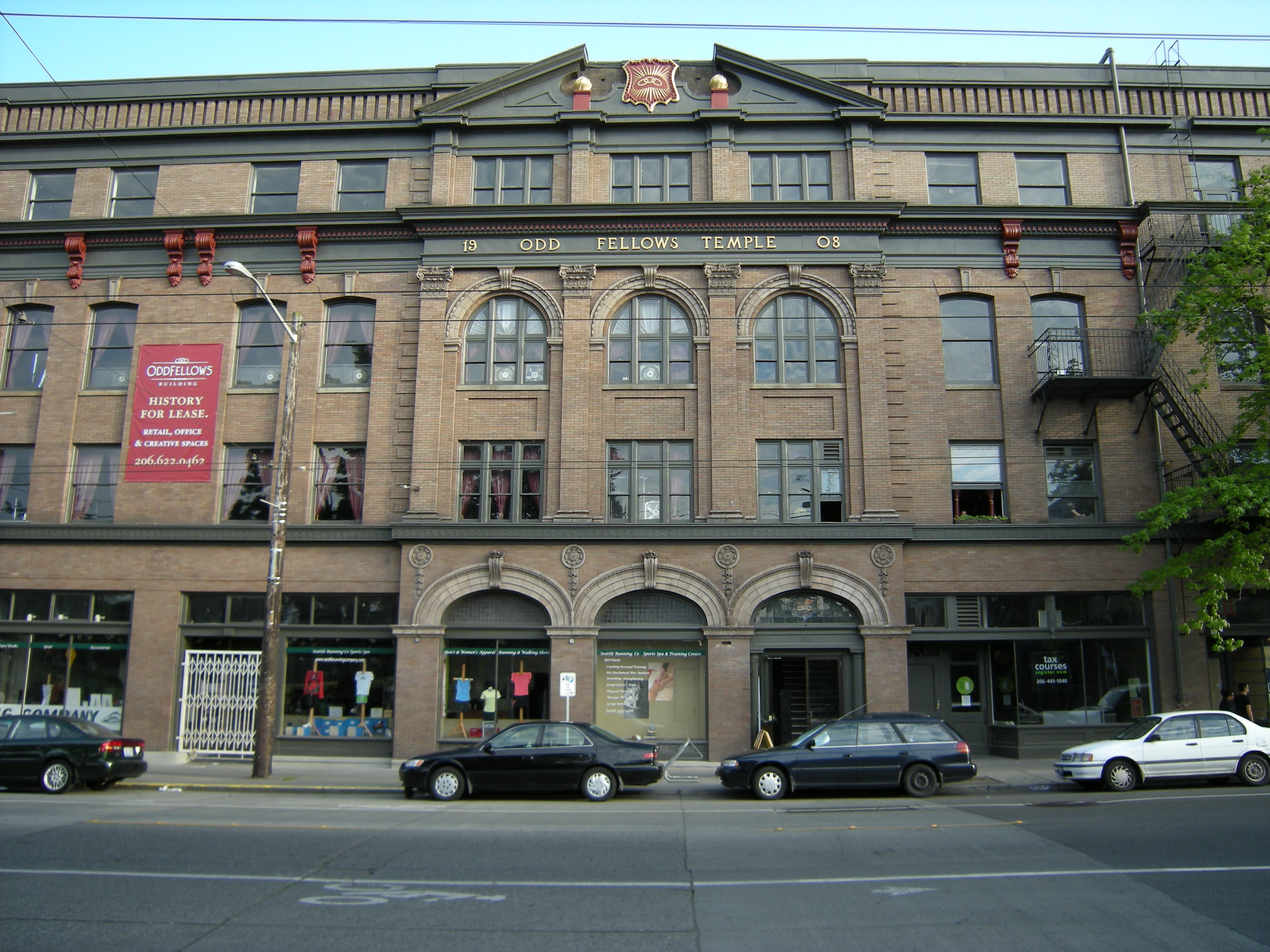 Oddfellows Temple, Capitol Hill, Seattle, Washington, USA.